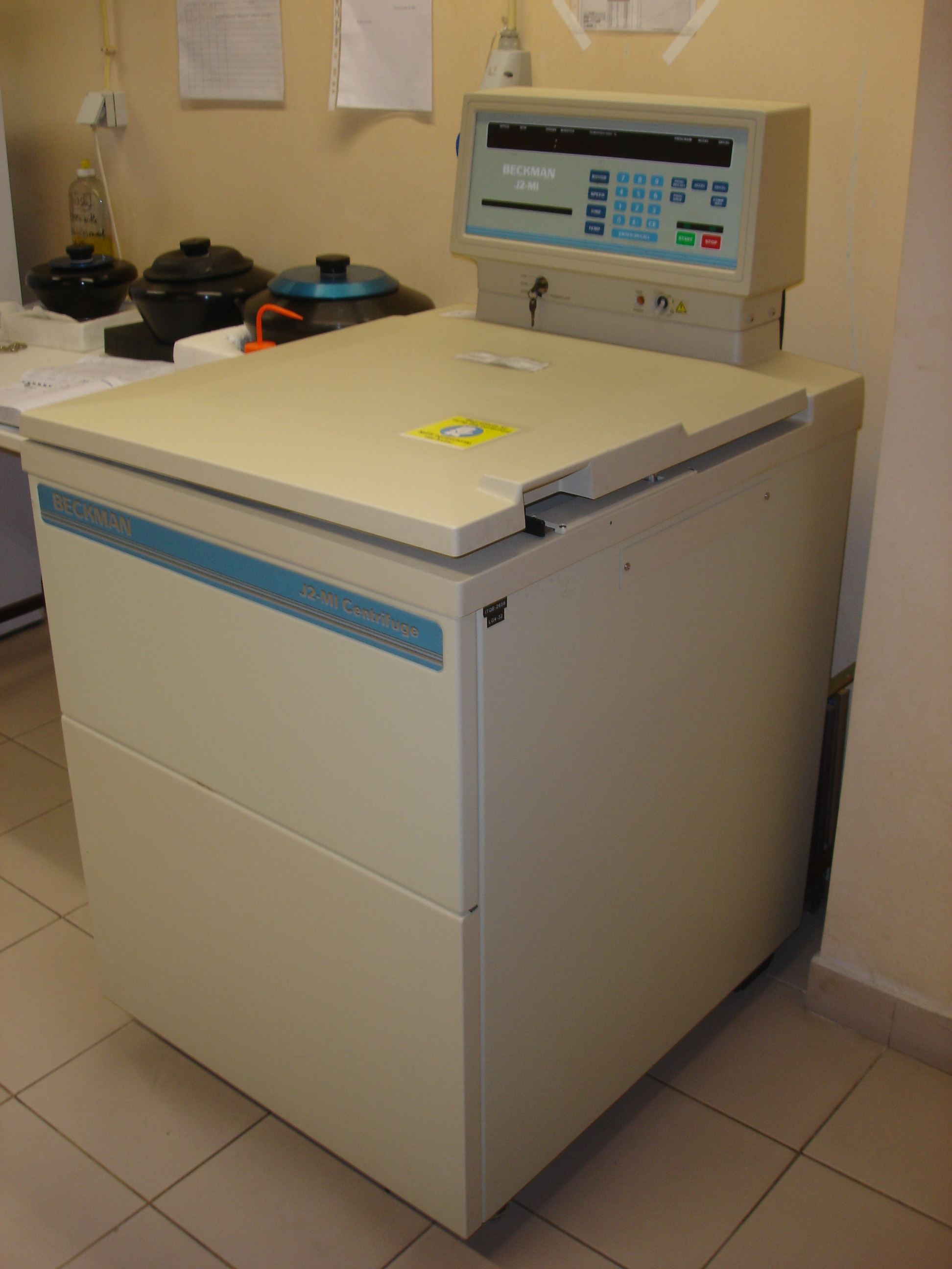 Large laboratory centrifuge. Beckman J2-MI.